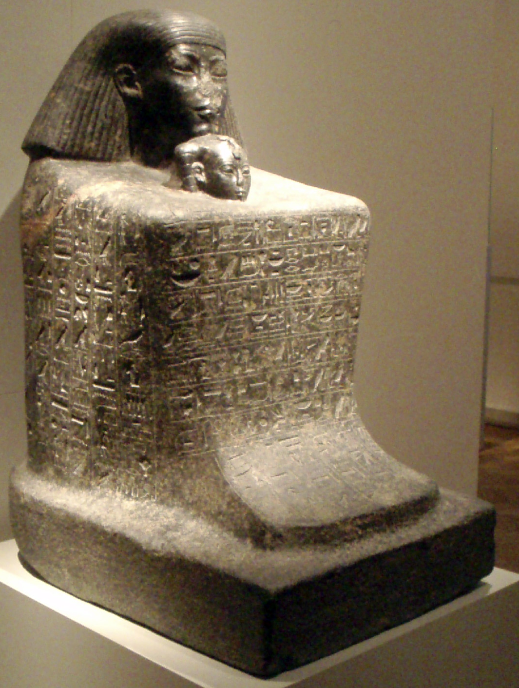 A block statue of Senemut, tutor of Hatshepsut's daughter, whose head appears below his in this sculpture.